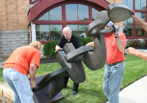 Permanent installation of "Totem" by the artist David Ascalon, bronze freestanding abstract sculpture on the grounds of the Cherry Hill Public Library, Cherry Hill, New Jersey USA.